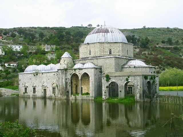 Leaden Mosque in Scutari, main town in northern Albania